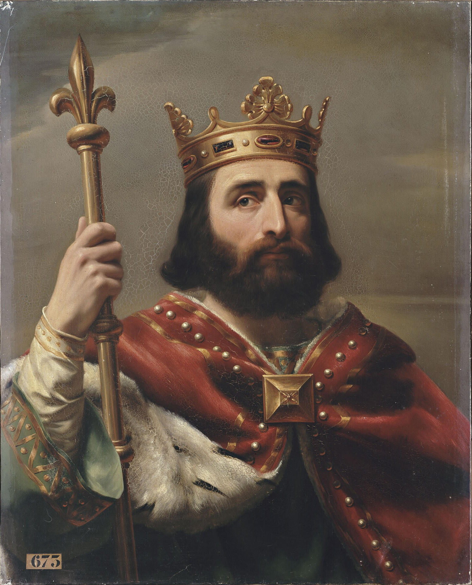 This painting belongs to the Portraits of Kings of France, a series of portraits commissioned between 1837 and 1838 by Louis Philippe I and painted by various artists for the Musée historique de Versailles.